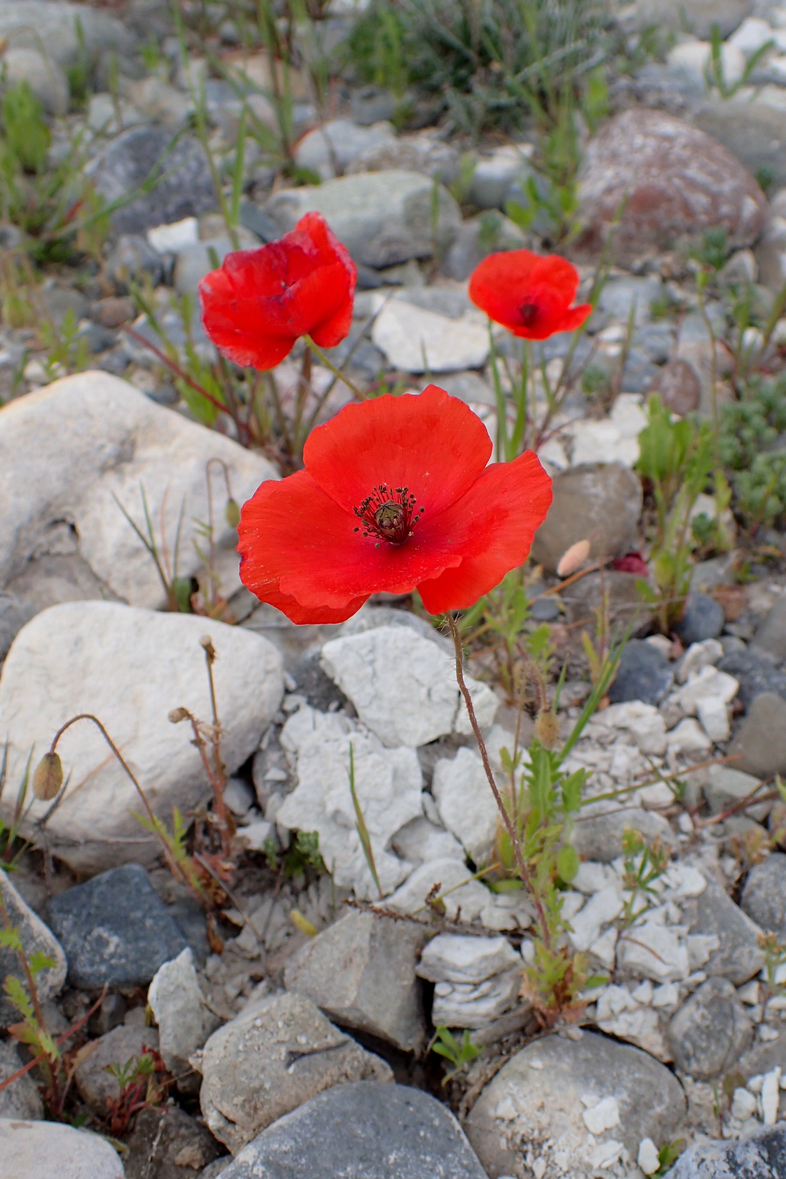 Papaver rhoeas in Kotsiatis, Cyprus